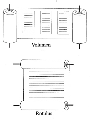 Diverse script formats in scrolls